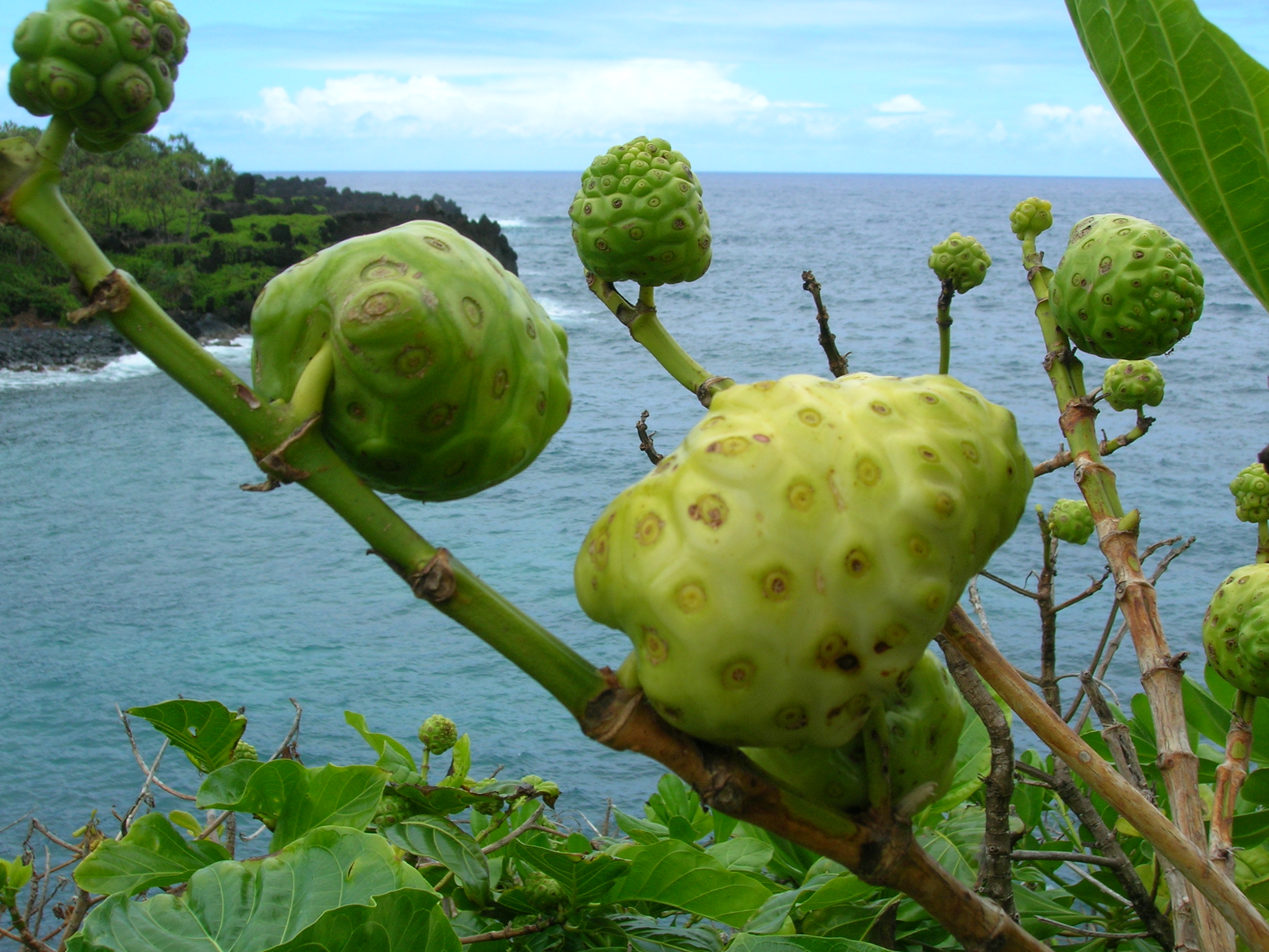 Morinda citrifolia (fruit). Location: Maui, Waianapanapa